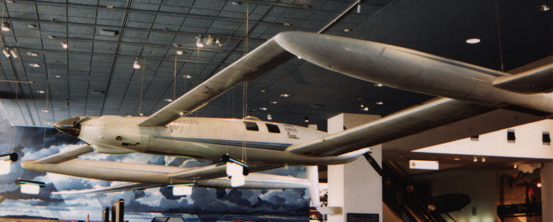 Voyager exhibited at NASM